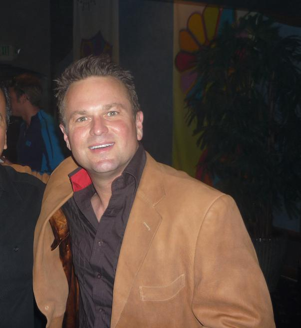 Singer Sam Harris at 2009 GLAAD Media Awards - Opening Night of Bacharach and David at The Music Box @ Fonda, Los Angeles.